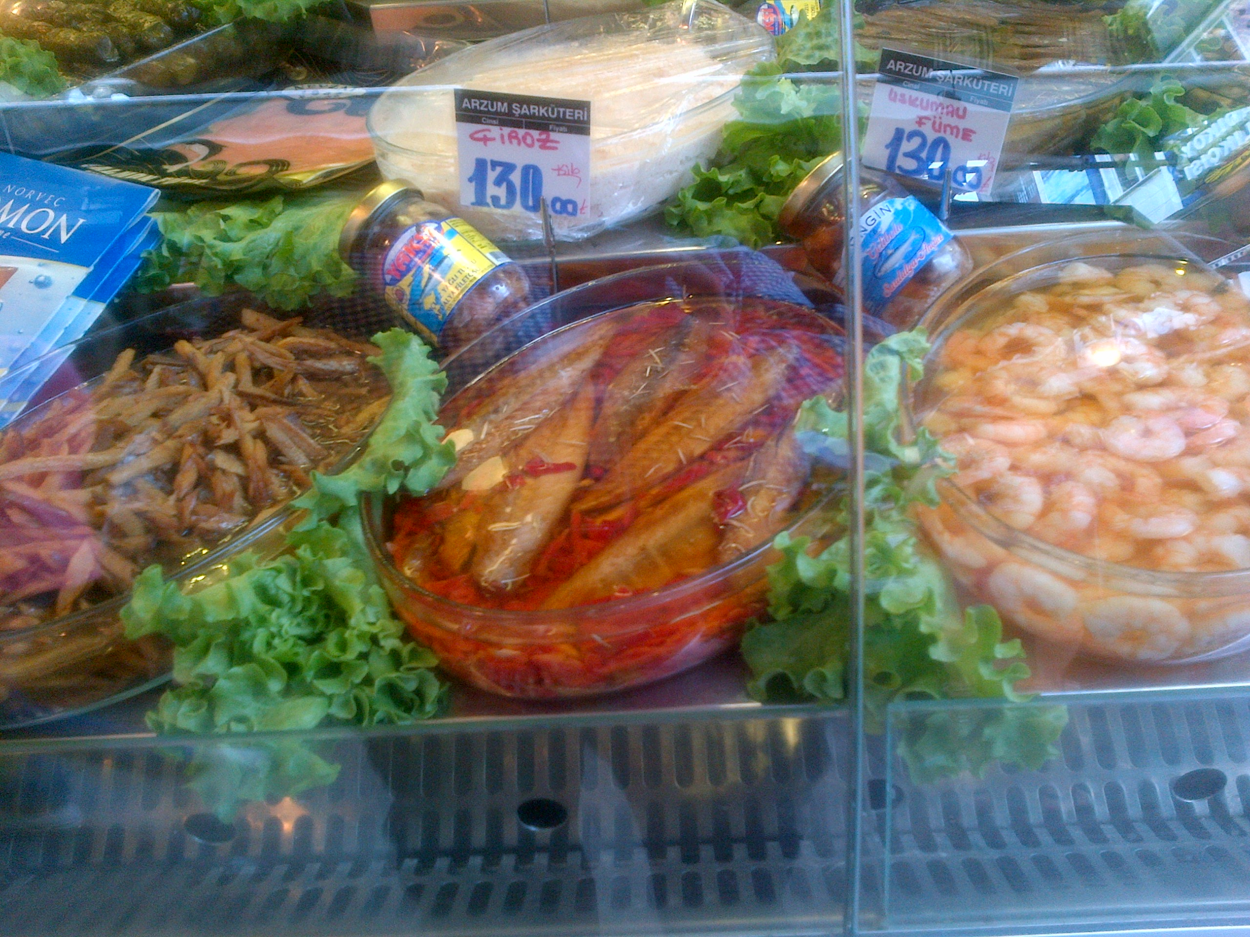 "Çiroz" or dried mackerel is a traditional Turkish fish conserve. At the picture, taken at the historical Kadıköy Market, it is in the center, between shrimps and "zeytinyağlı taze fasulye" (a cold dish from the Turkish cuisine) at a shop window.